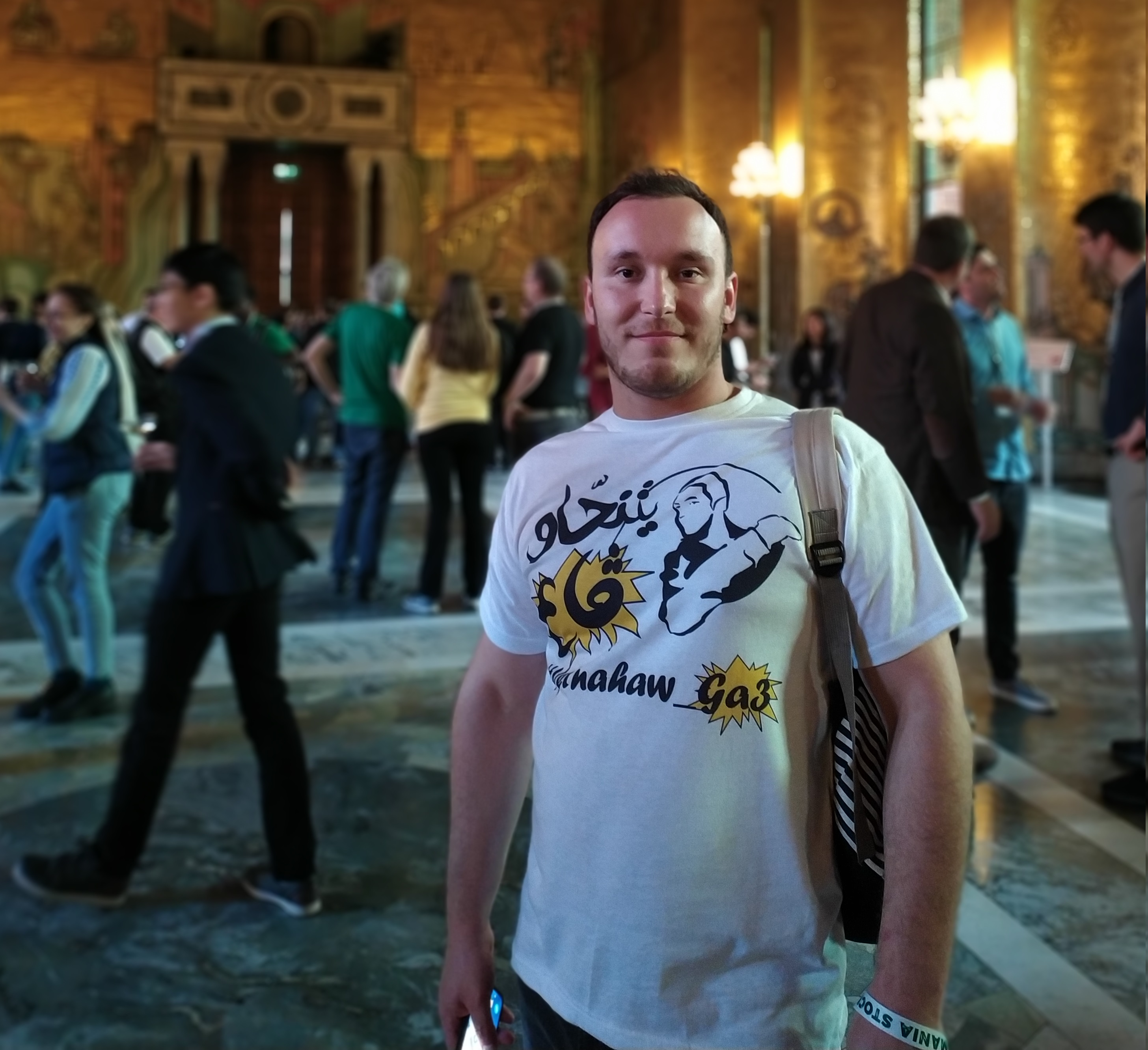 Reda Kerbouche with his T-shirt's slogan #Yatnahaw_Ga3 in the Stockholm City Hall. The photo was taken at the event organised by the org team of Wikimania 2019.